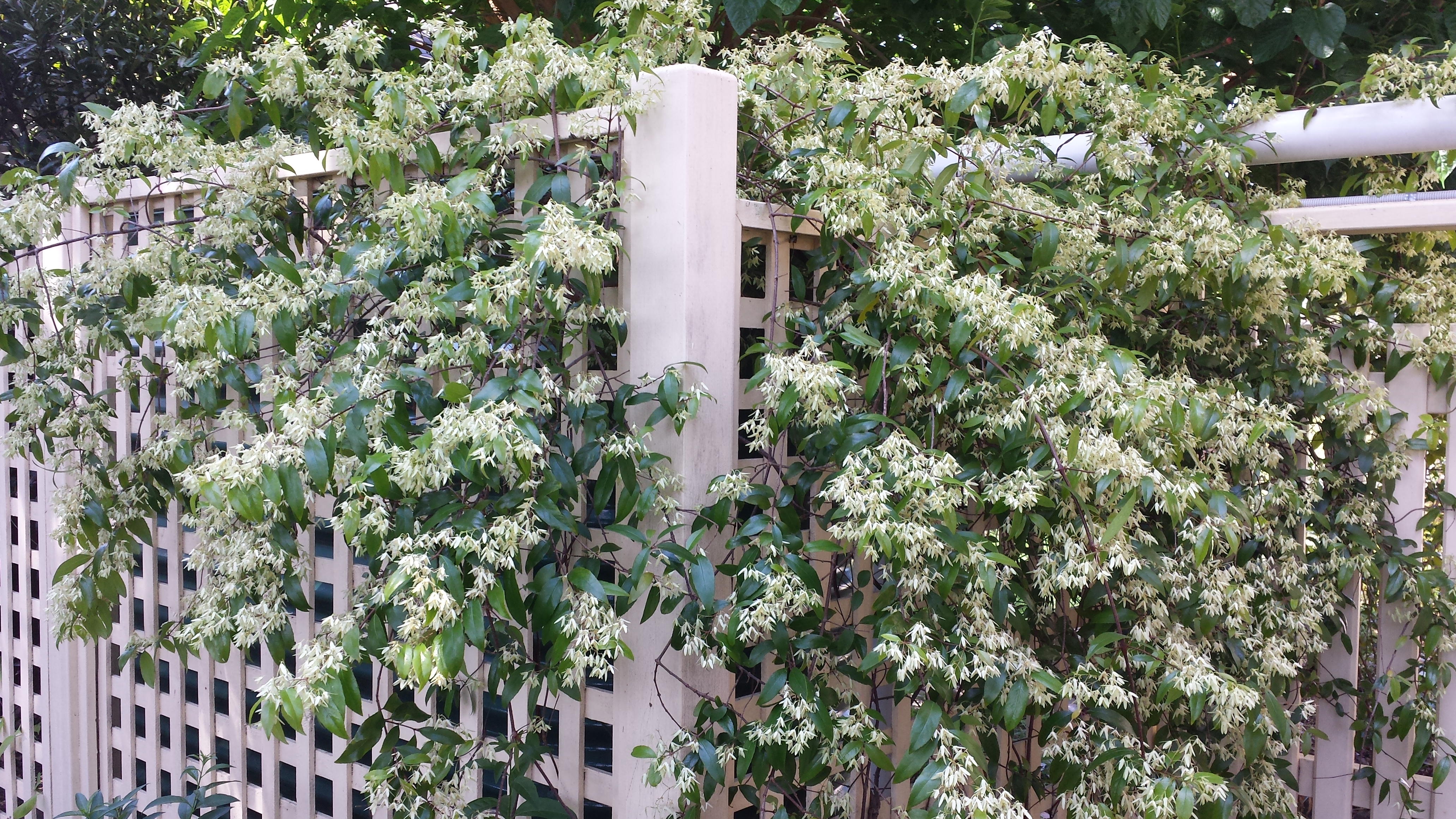 Aphanopetalum resinosum, cultivated in my garden in Sydney